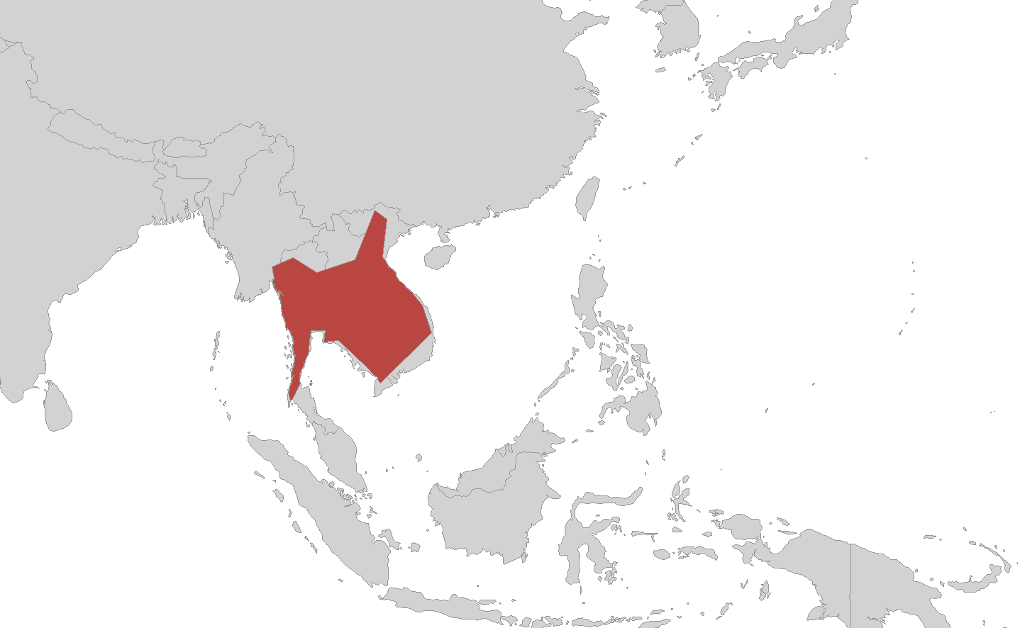 Ichthyophis kohtaoensis range